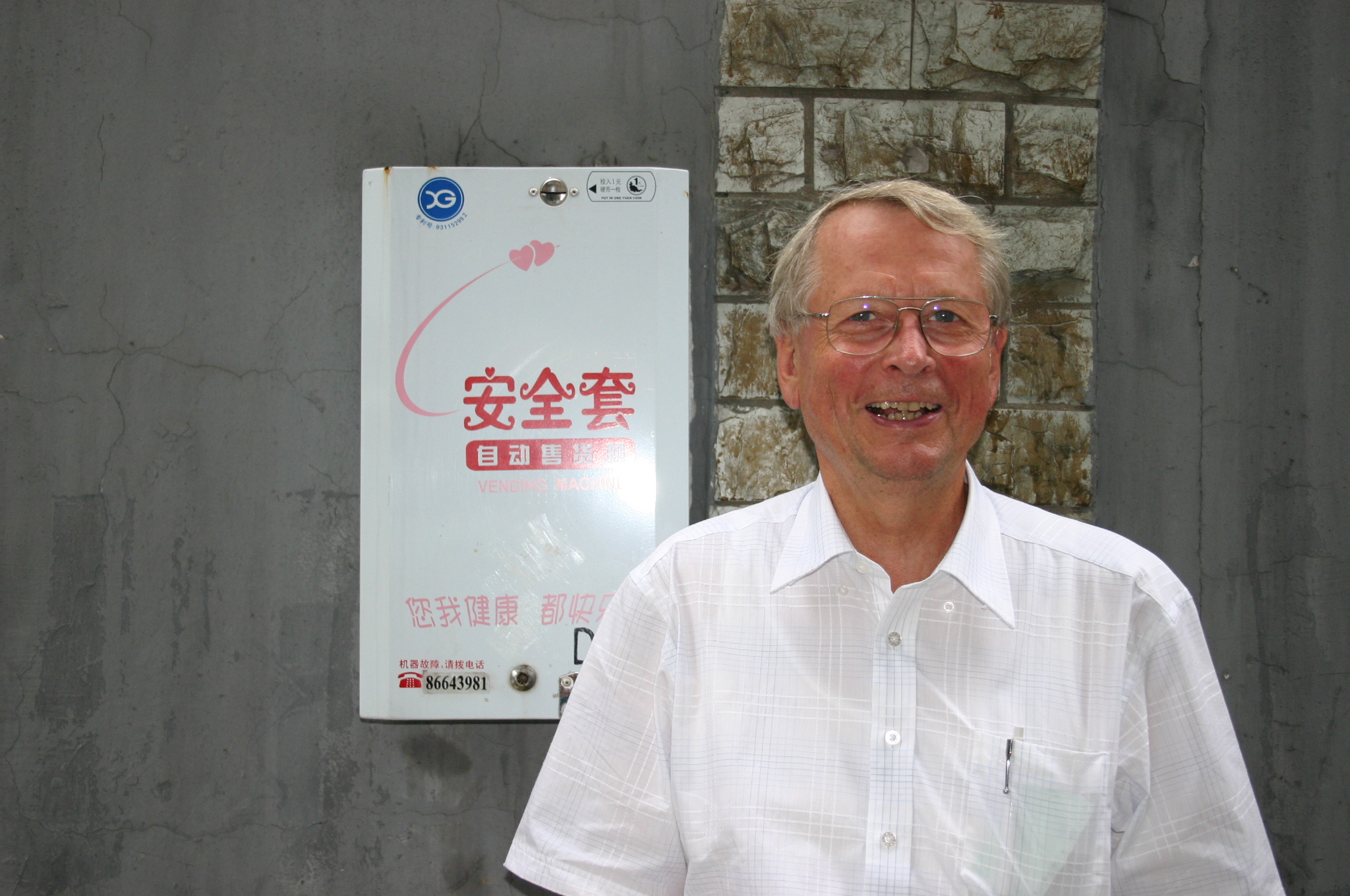 The former Deputy-Secretary of the World Bank and former leader of the UN Population Fond (UNFPA) Office for China and North Korea, Sven Burmester, with his "gift to humanity", a condom vending machine, Chengdu, China July 2009. Den tidligere vicedirektør i Verdensbanken og tidligere leder af FN´s Befolkningsfonds kontor for Kina og Nordkorea, Sven Burmester, med sin "gave til menneskeheden", en kondomautomat, Chengdu, Kina, juli 2009